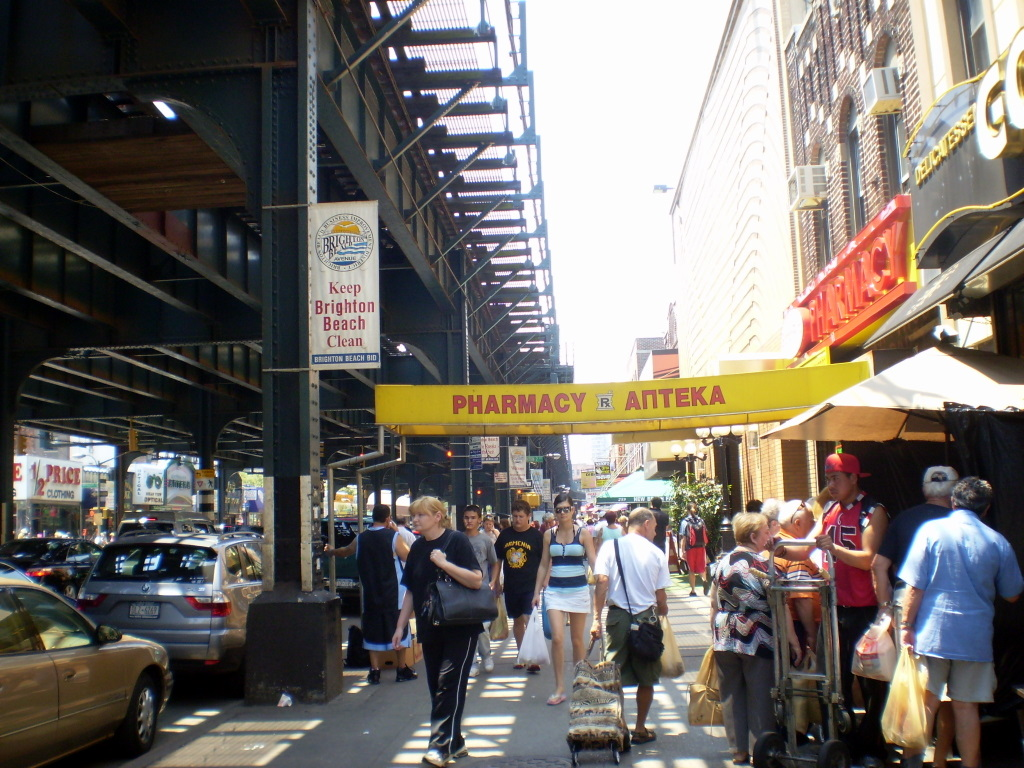 Brighton Beach avenue. "Russian island" in Brooklyn.